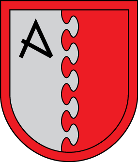 Coat of arms of Amata Municipality, Latvia.